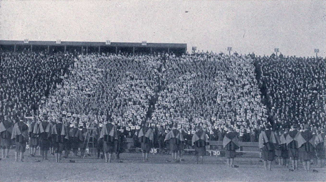 Photograph captioned "Singing 'The Yellow and the Blue' between halves of the Penn Game }